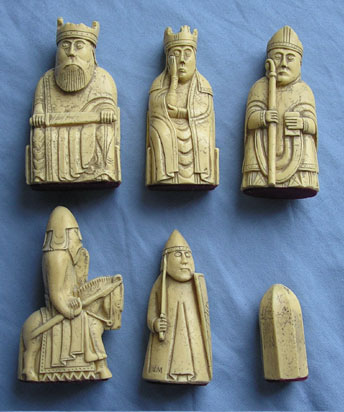 Photographs of real-size resin reproductions of the Lewis chessmen. The upper photograph shows one of each type of piece - the top row shows king, queen, and bishop. The bottom row shows knight, rook, and a pawn. Photo taken by Finlay McWalter.